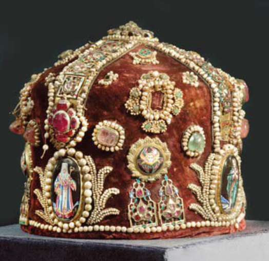 The crown of Stefan Uroš III Dečanski Nemanjić 14c. Srpski (latinica): Kruna kralja Stefana Uroša III Dečanskog, iz Cetinjskog manastira (XIV vijek).